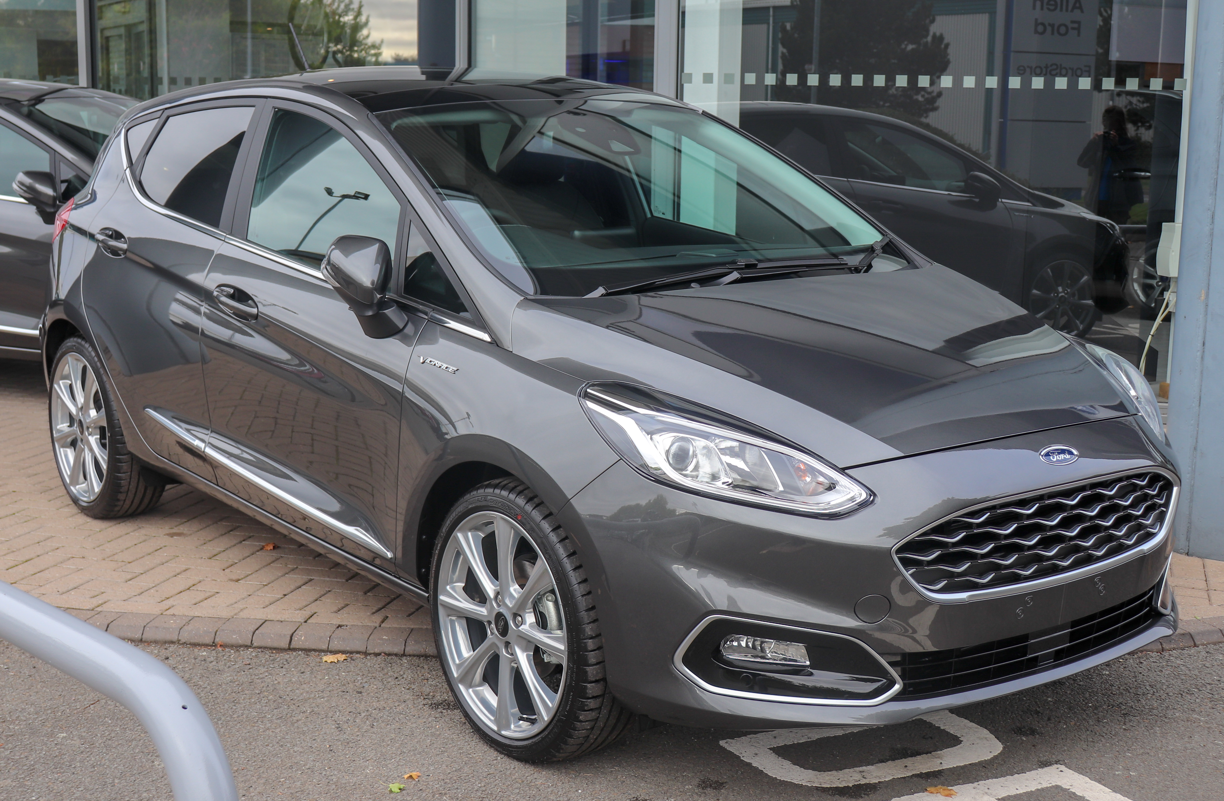 2018 Ford Fiesta Vignale Front Taken in Leamington Spa